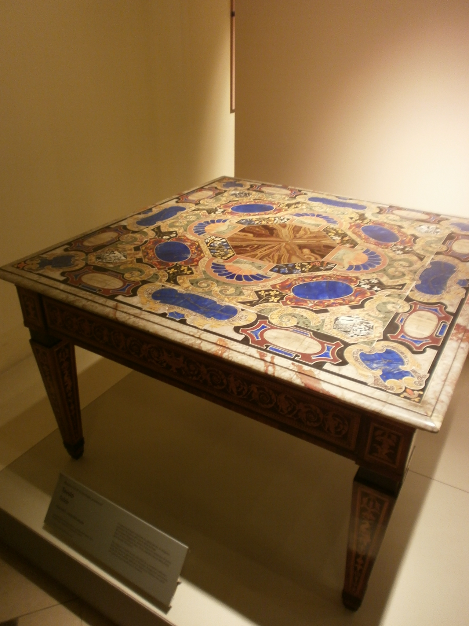 Table - end of XVIII century - inlaid walnut and tabletop in hardstone intarsia